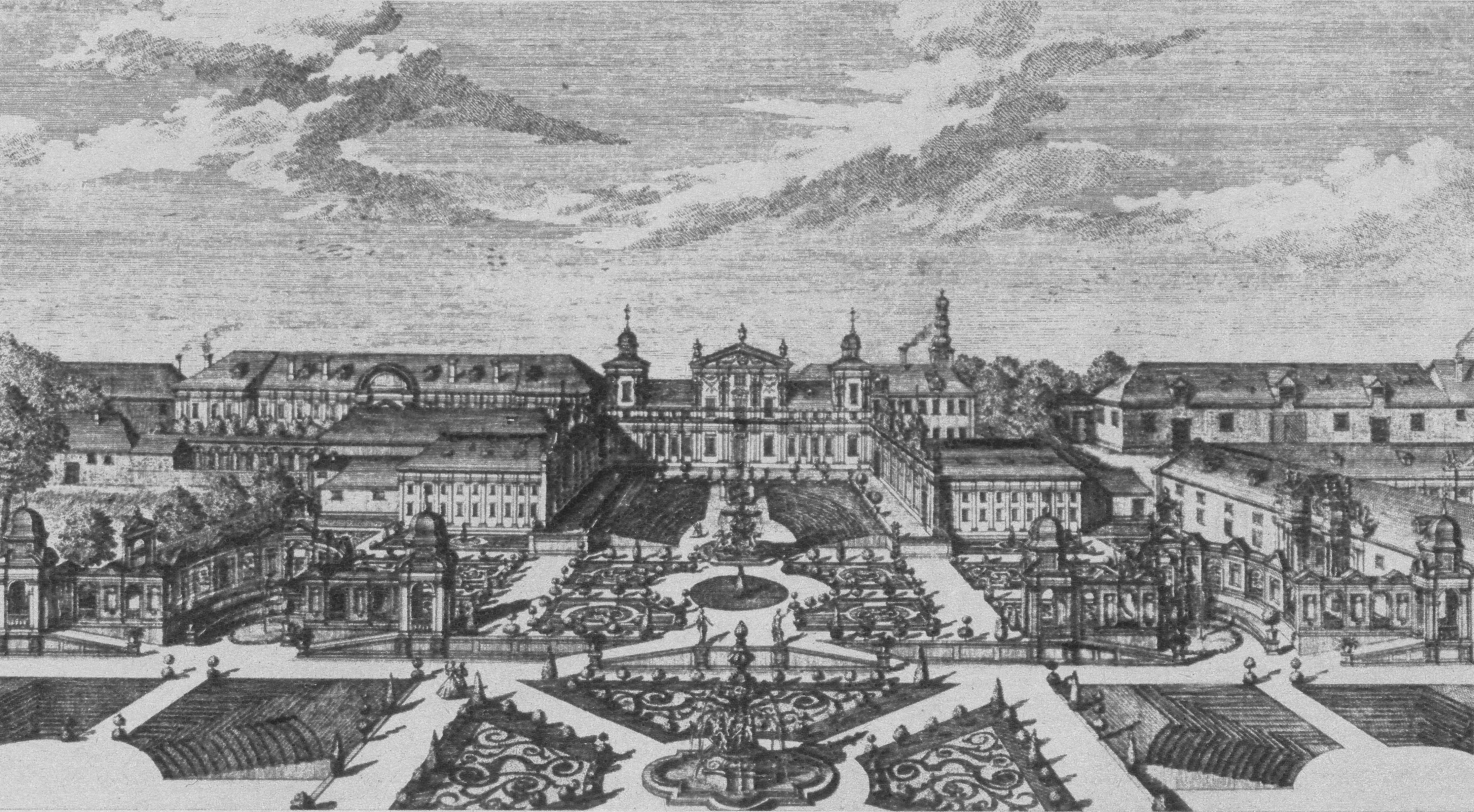 Lednice Castle in the 18th century, engraving by Johann Adam Delsenbach.